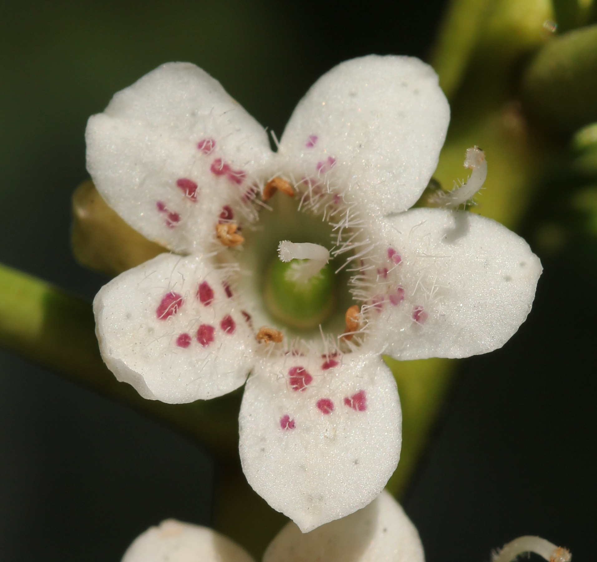 Ngaio flower (Myoporum laetum).